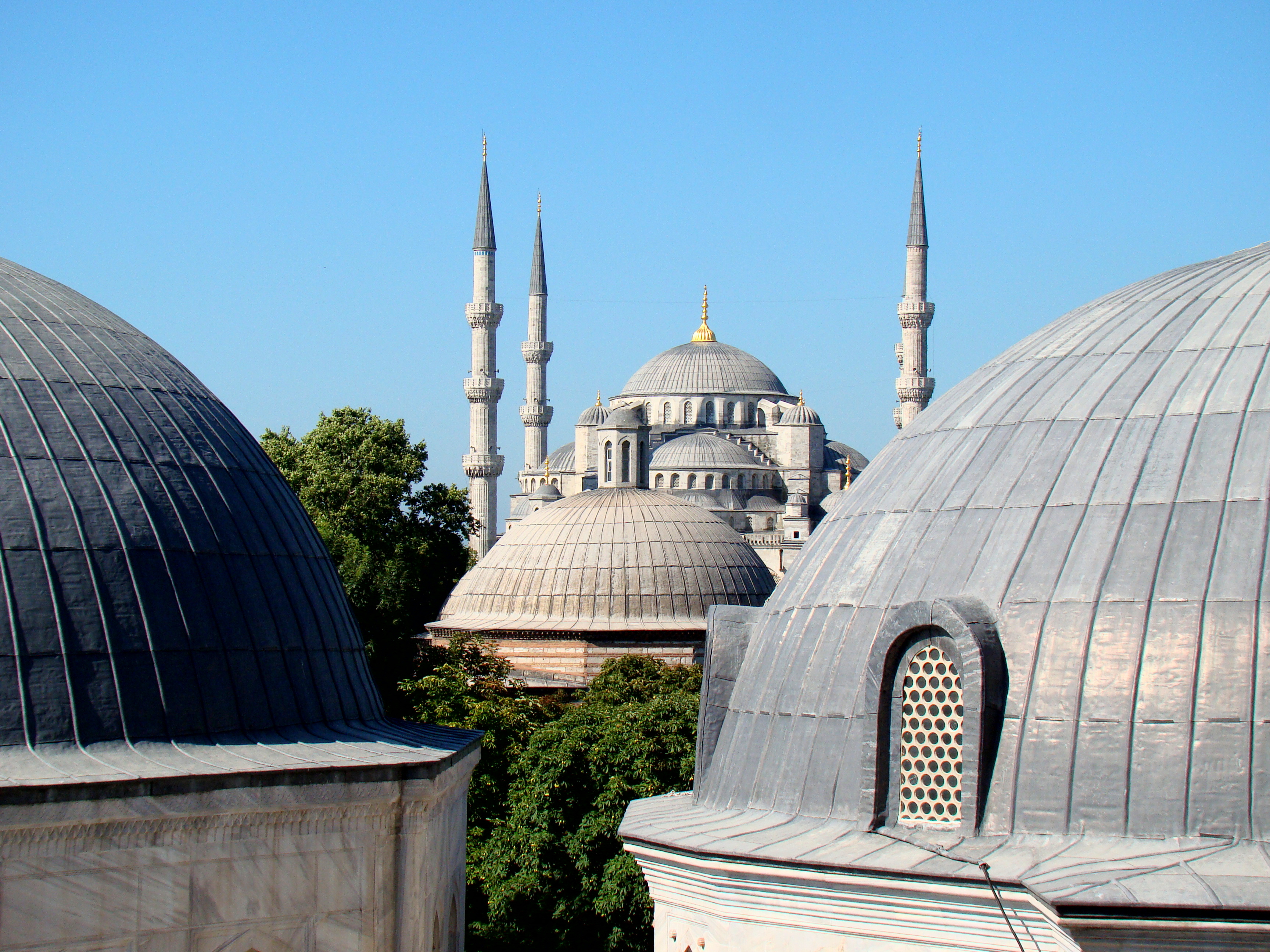 The Sultan Ahmed Mosque (Sultan Ahmed Camii) photographed from the upper gallery of Hagia Sophia Museum.